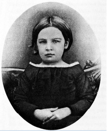 Alice Cogswell (later Alice Cogswll Bemis)